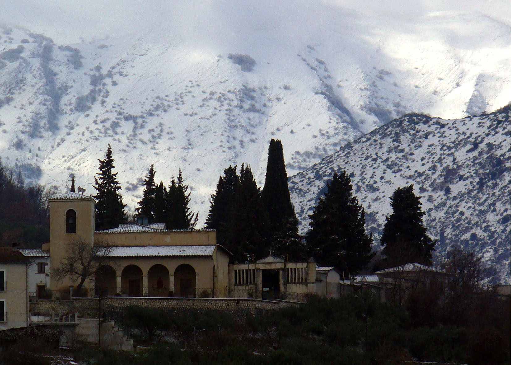 Church Santa Maria della Neve/Concanelle in Bugnara, Italy, in winter.